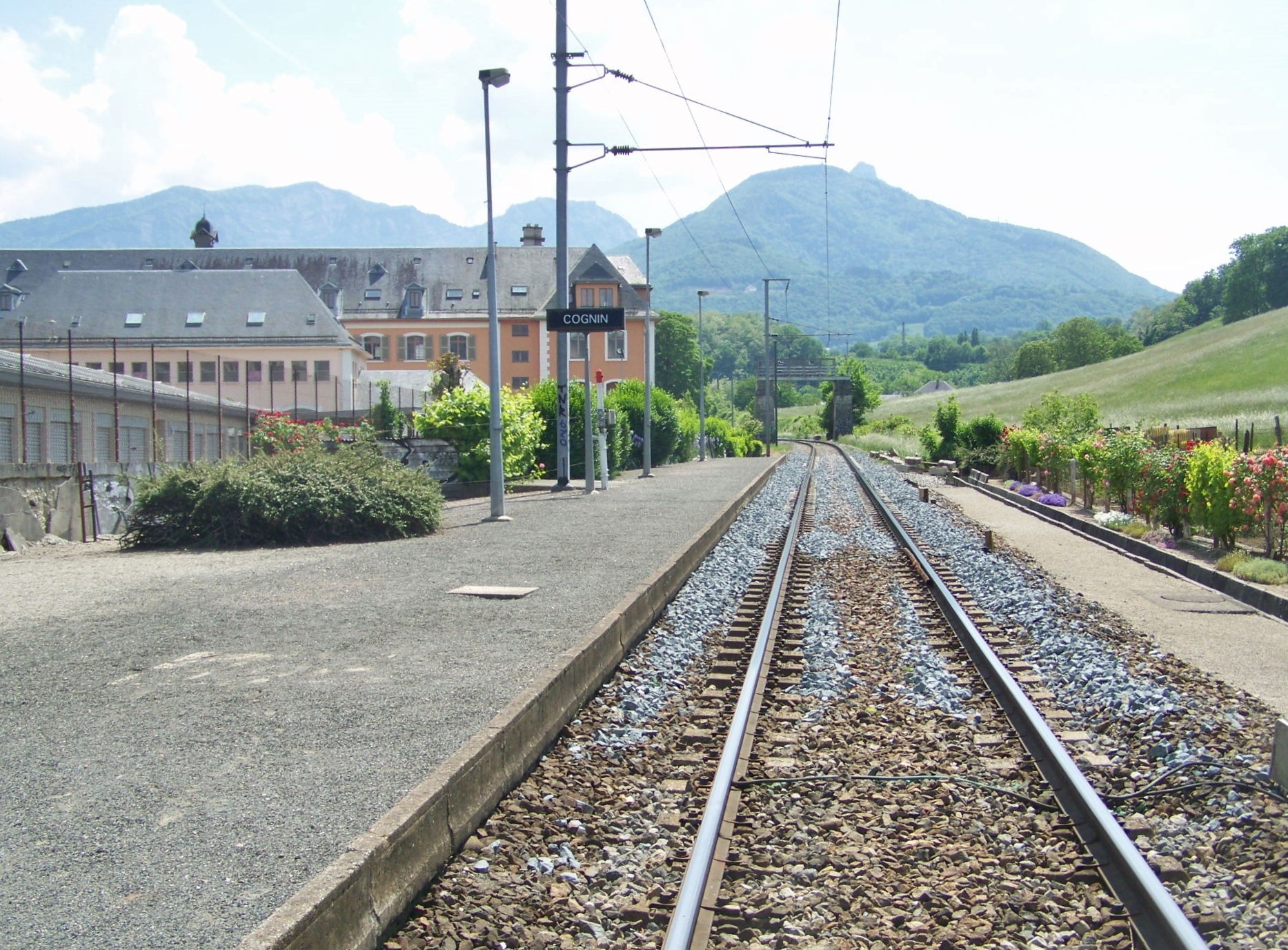 Sight of the previous city of Cognin railway stop (today closed), near Chambéry in Savoie (in the direction of Lyon).